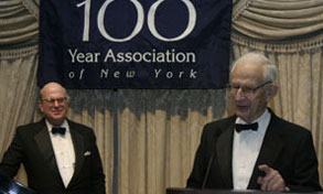 The Executive Director of the organization (me) has authorized use of this image for external purposes.